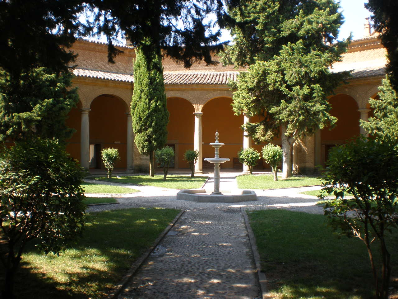 Huesca Museum, cloister